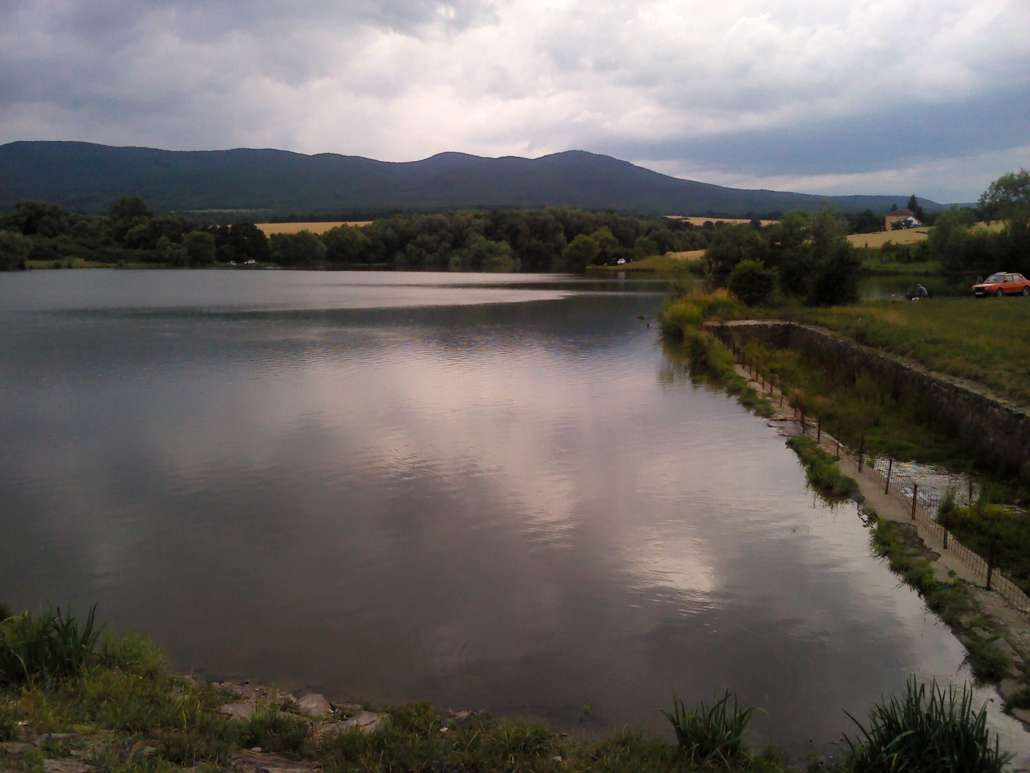 Sečovce reservoir located on the west of Sečovce cadastral area, built in 1971 on Trnávka stream.